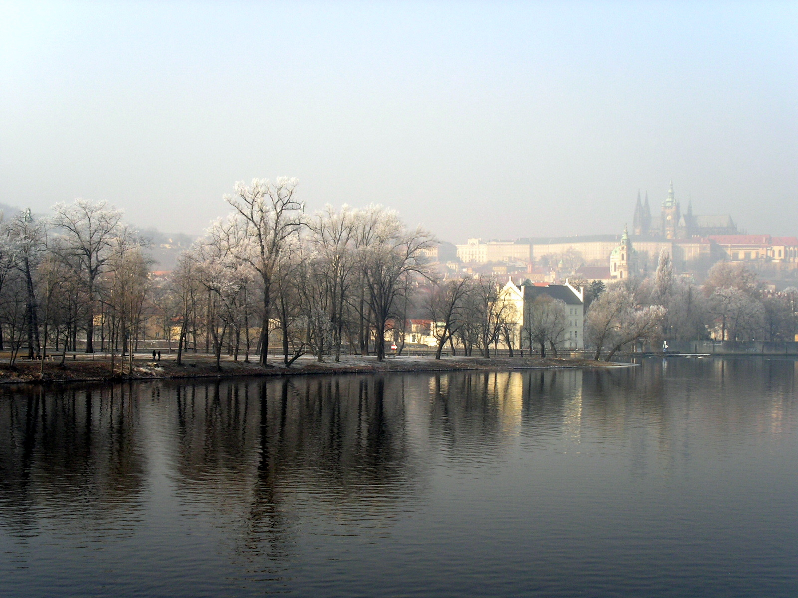 View of the Vlatava River and Castle in Winter